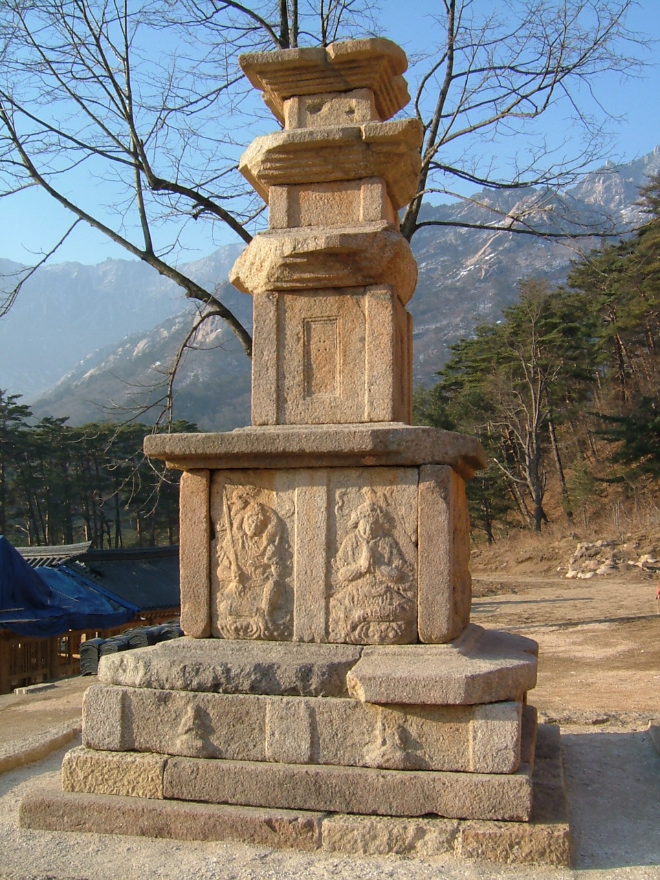 Singyesa temple and Kumgangsan